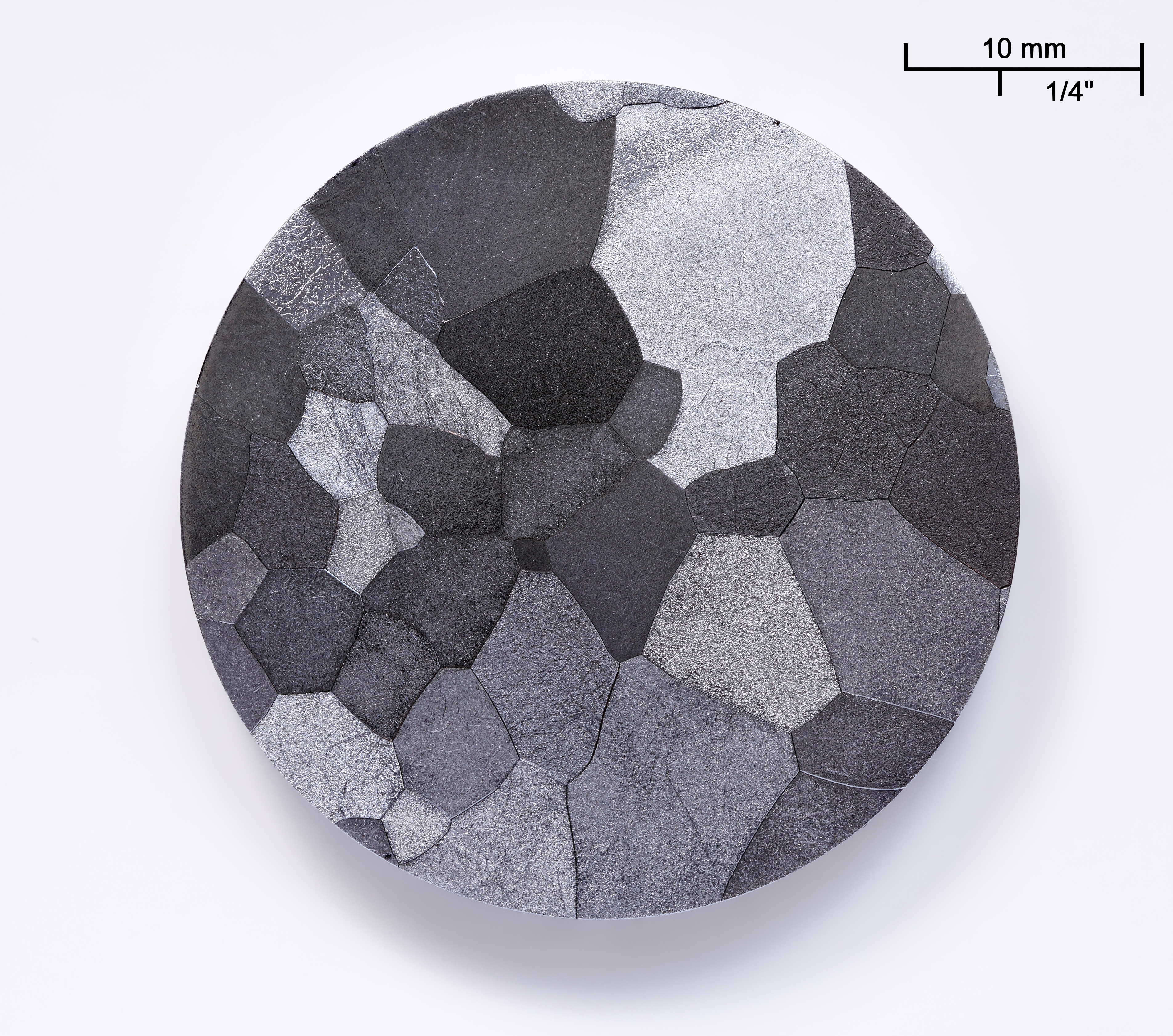 A high purity (99.95 %) Vanadium disc, EBM remelted, electrical discharge cut, ground, polished and macro etched. Size ca. 35 mm dia., weight ca. 31.5 g.